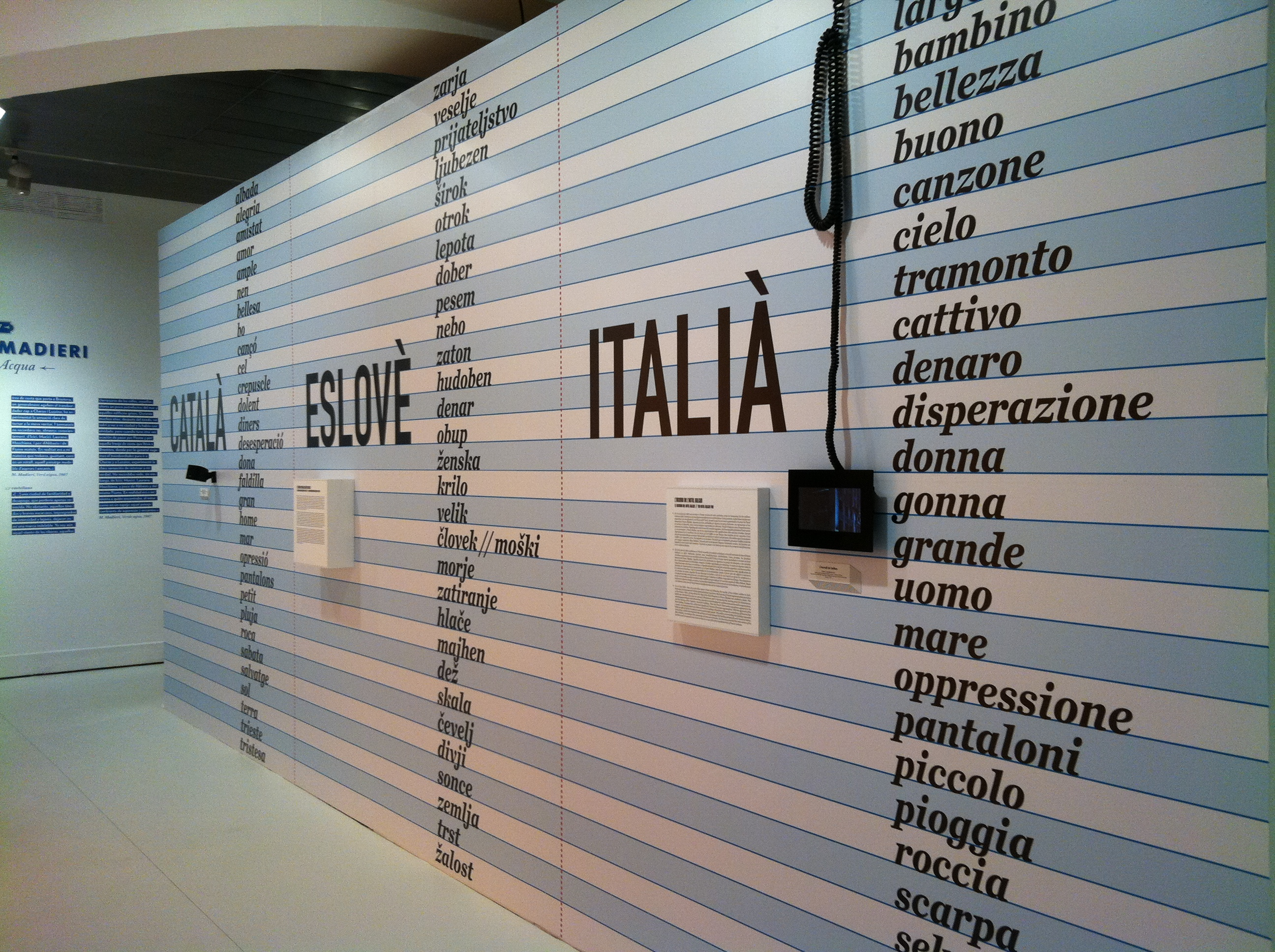 La Trieste de Magris. Exhibit about the Trieste of Claudio Magris, shown at CCCB during 2011